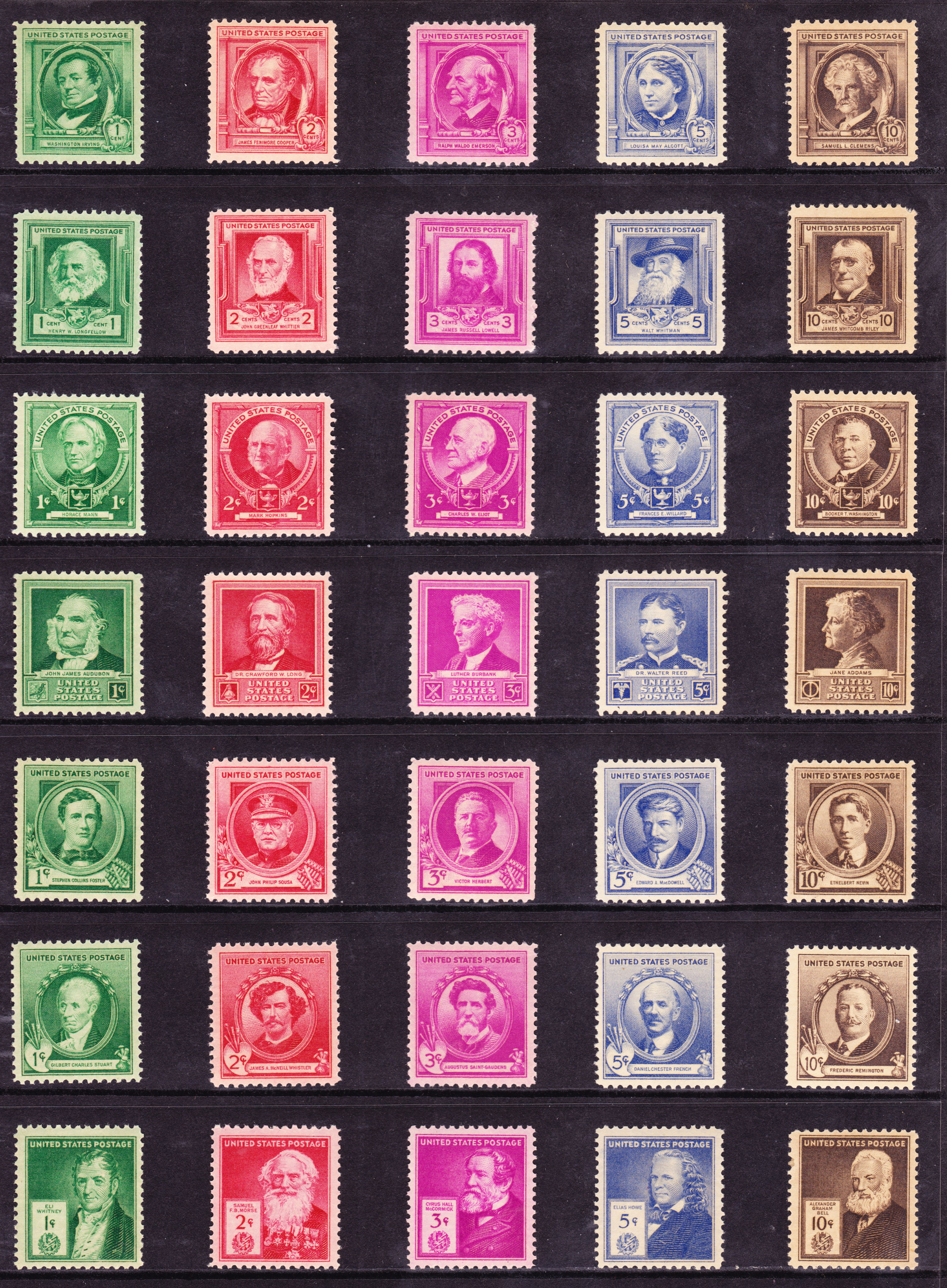 Famous_American_Series_of_1940.jpg